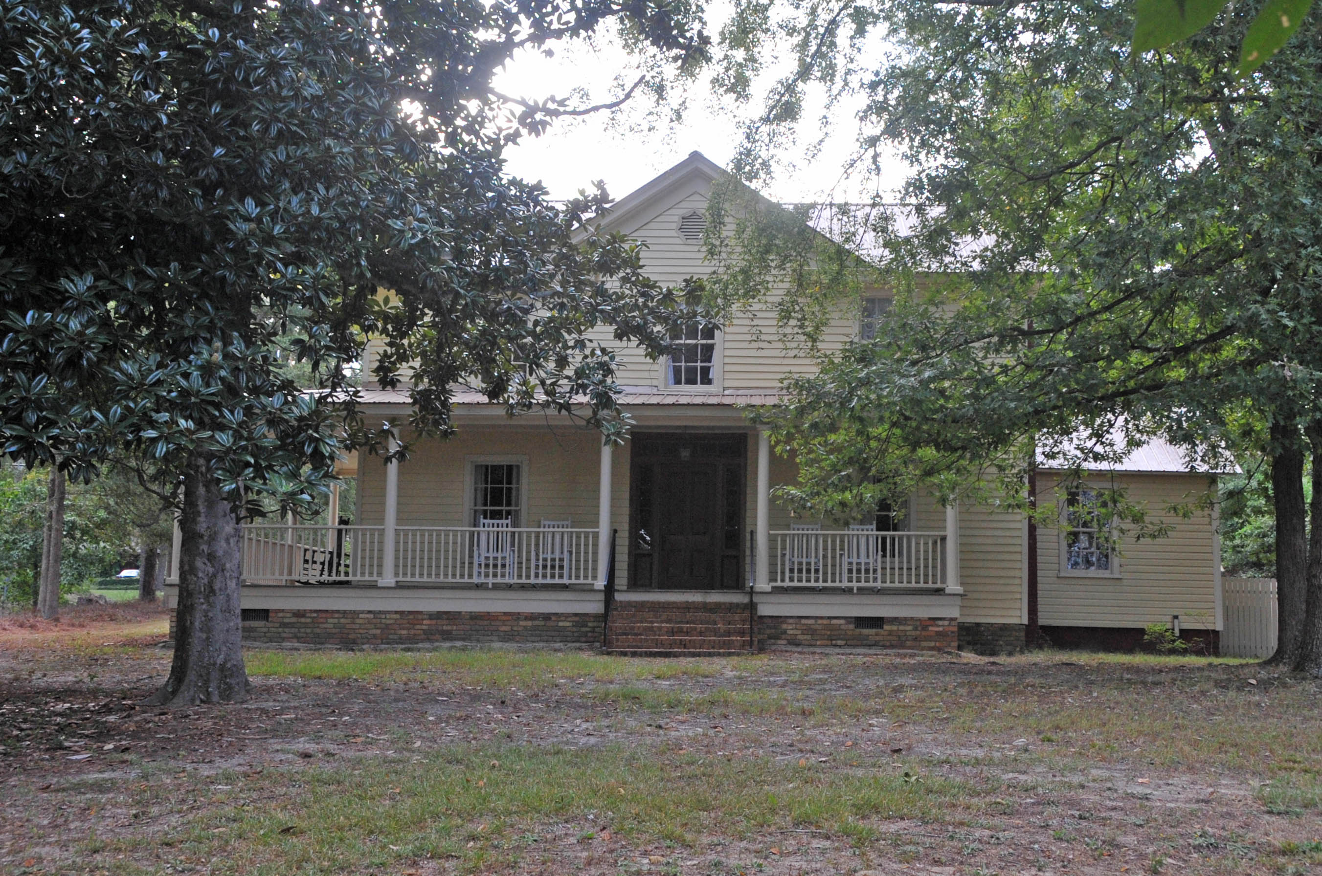 POSTMASTER’S HOUSE – 1880 OLDEST DOWNTOWN STRUCTURE IN THE HISTORIC DISTRICT ON SOUTH STREET; BUILT FOR MALCOLM BLUE, AS MEMBER OF A PROMINENT ABERDEEN FAMILY